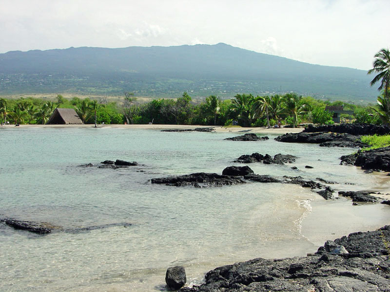 The dormant volcano Hualālai as seen from Kaloko-Honokōhau National Historical Park, on the Big island of Hawaiʻi. The ancient settlement of Honokōhau in foreground. Note "vog" condition from activity at Kilauea; this is in fact unusually clear.